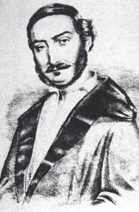 Portrait of the poet Panagiotis Soutsos